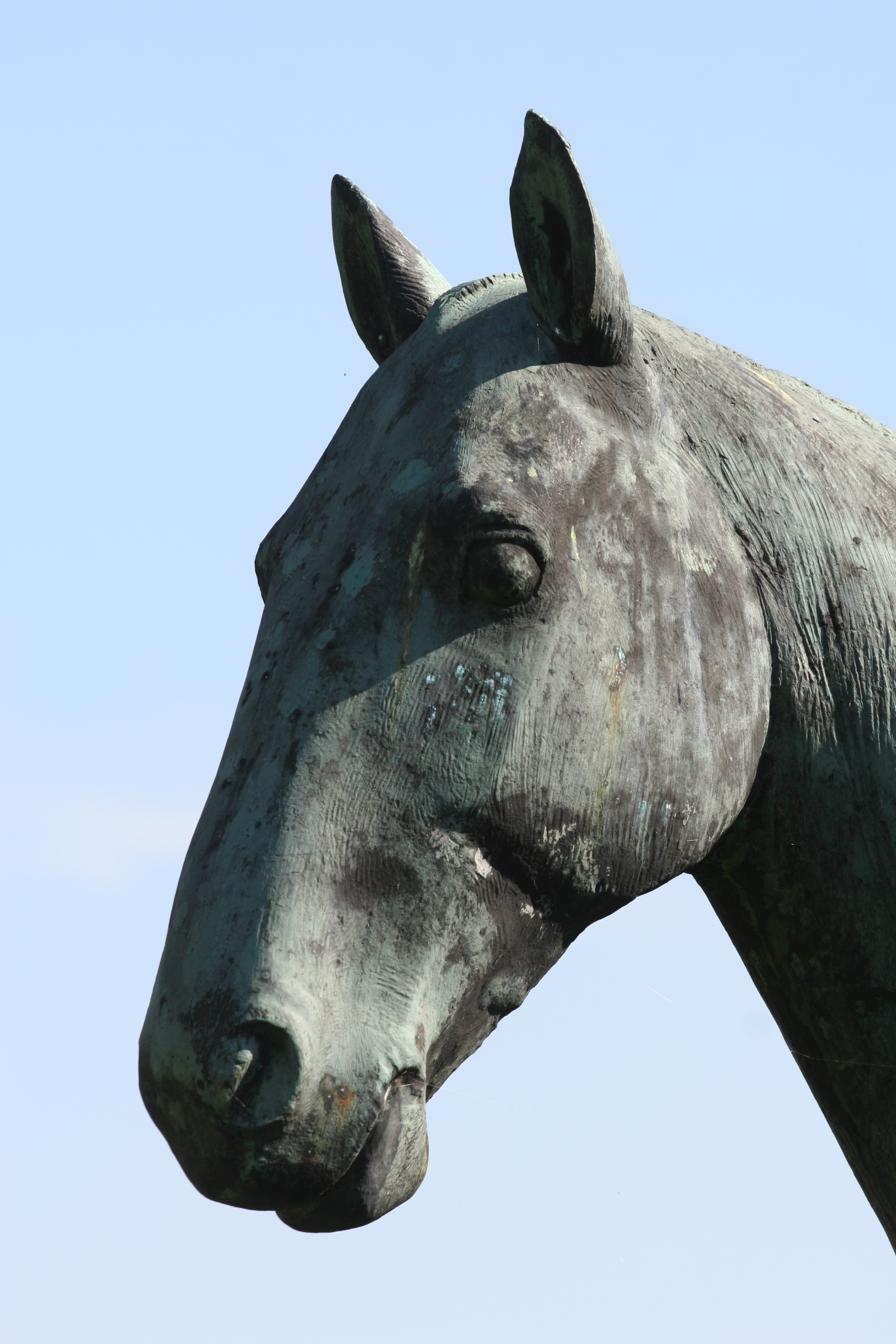 Detail (Head) of the sculpture of the horse "Meteor" from Hans Kock in Kiel (1957), Germany